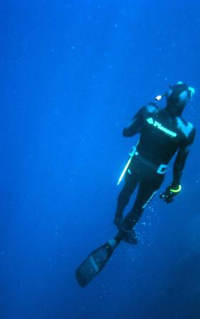 Subject is Scott Campbell, former US freedive team member, static apnea record holder, Photo taken near Roca Partida, Revillagigedos archipelago, Mexico.